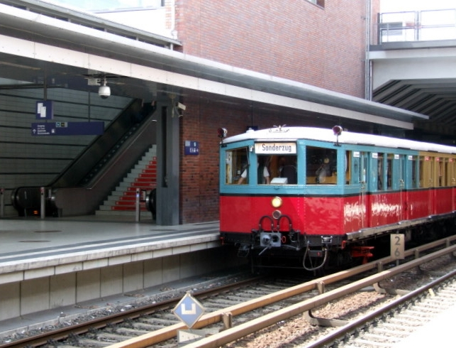 vintage train of S-Bahn Berlin in Gesundbrunnen station, dated June 2006 Fotograf: Harald Rossa Datum: Juni 2006 Höher aufgelöste Version ist verfügbar